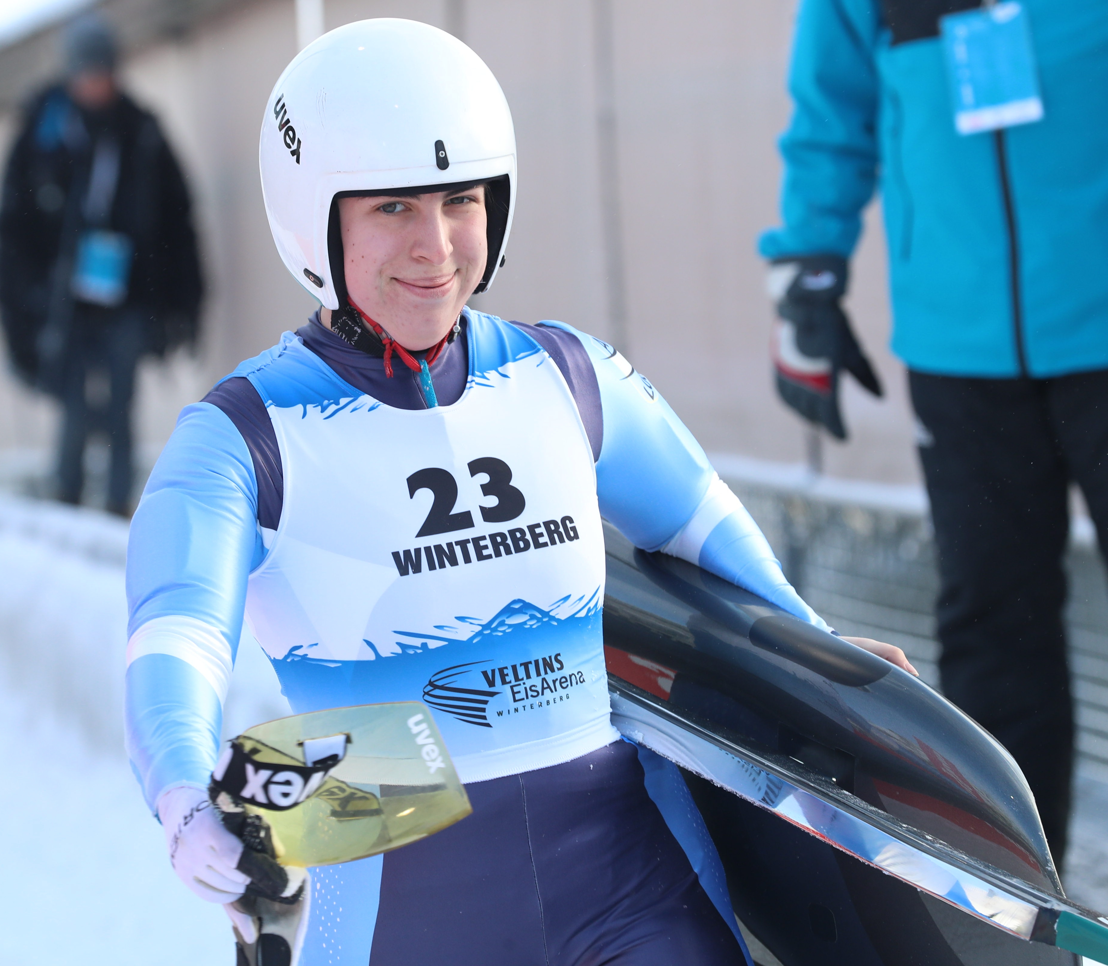 Women's Qualification for the Sprint World Championships at the FIL World Luge Championships 2019 in Winterberg